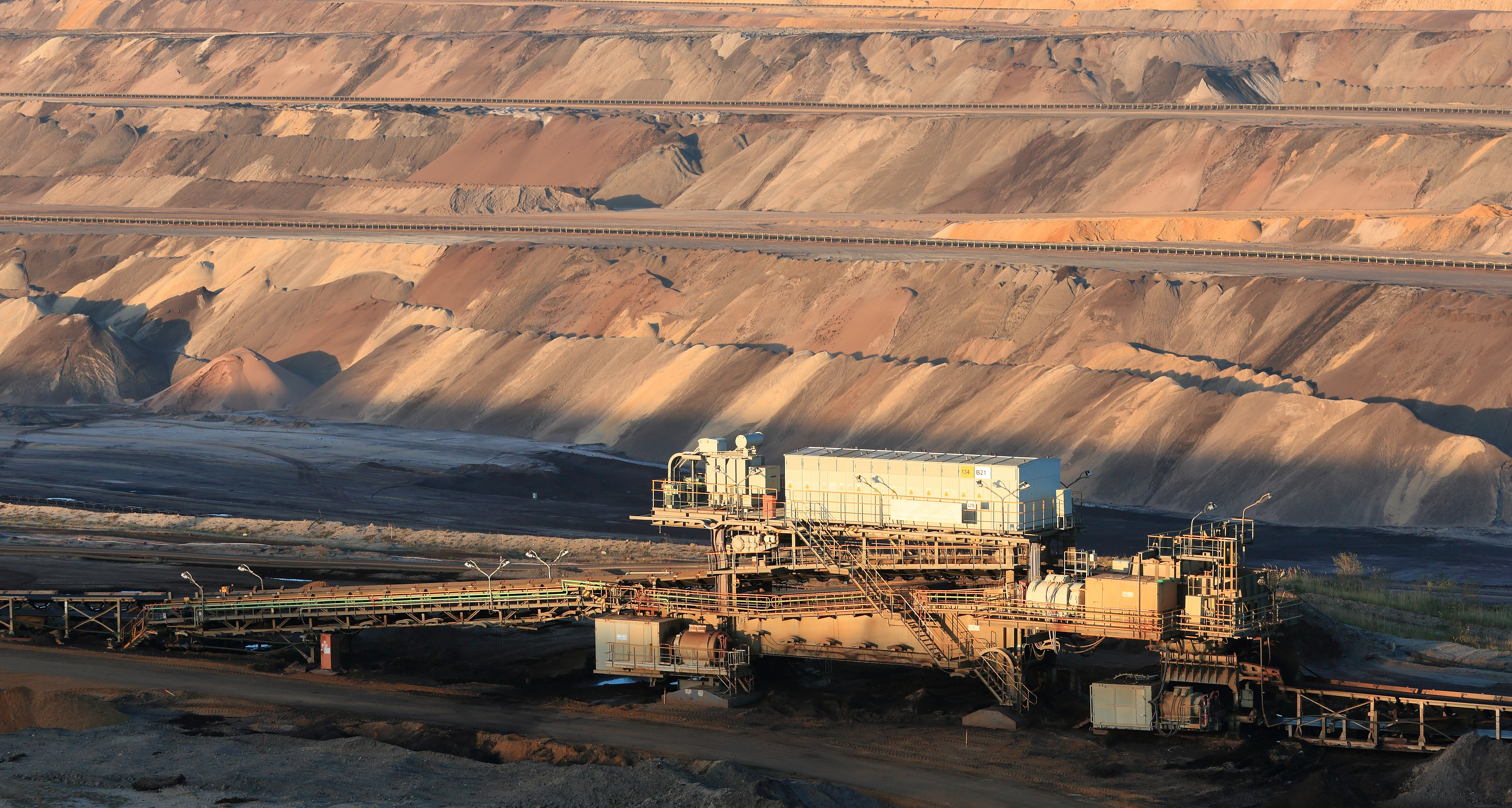 The Tagebau Garzweiler is a surface mine in the German state of North Rhine-Westphalia. It is operated by RWE and used for mining lignite.